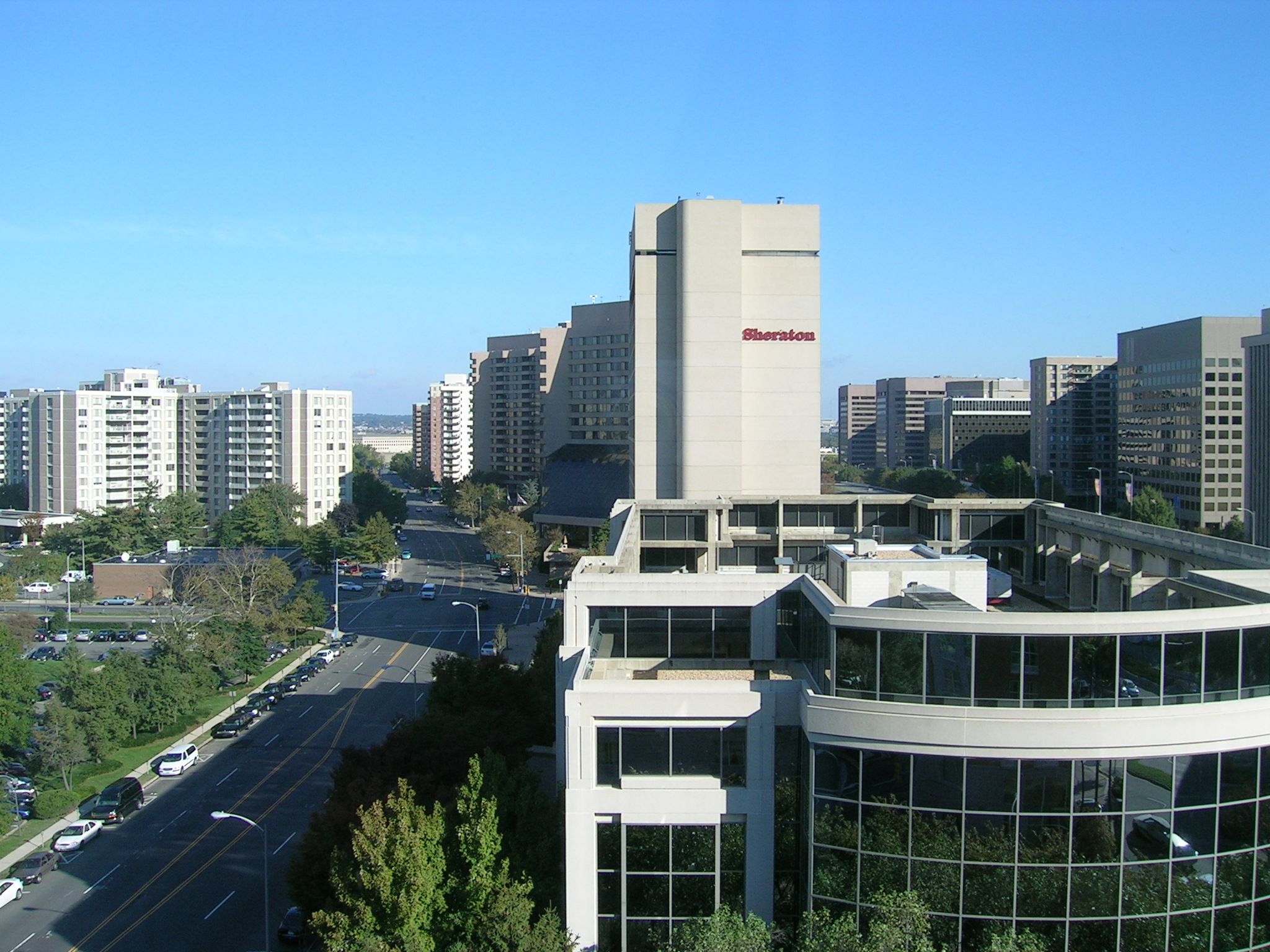 Crystal City, Virginia Author: Aaron Kuhn